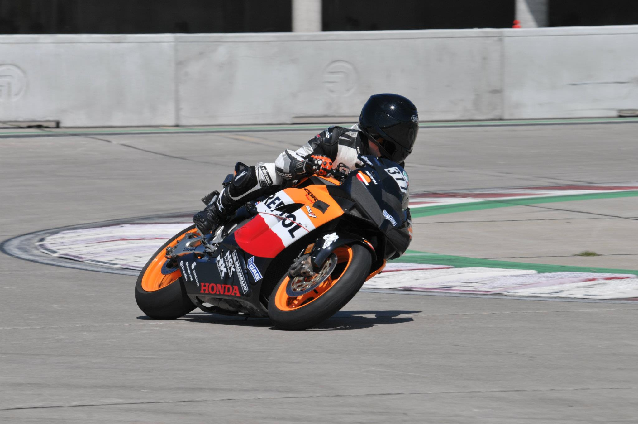 Honda CBR1000 Repsol 2005 on the Track